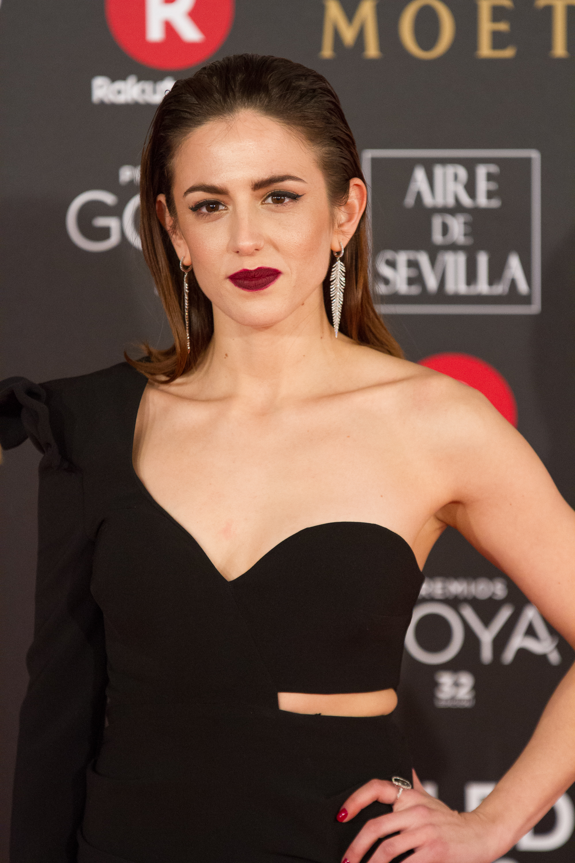 32nd Goya Awards, 2018.